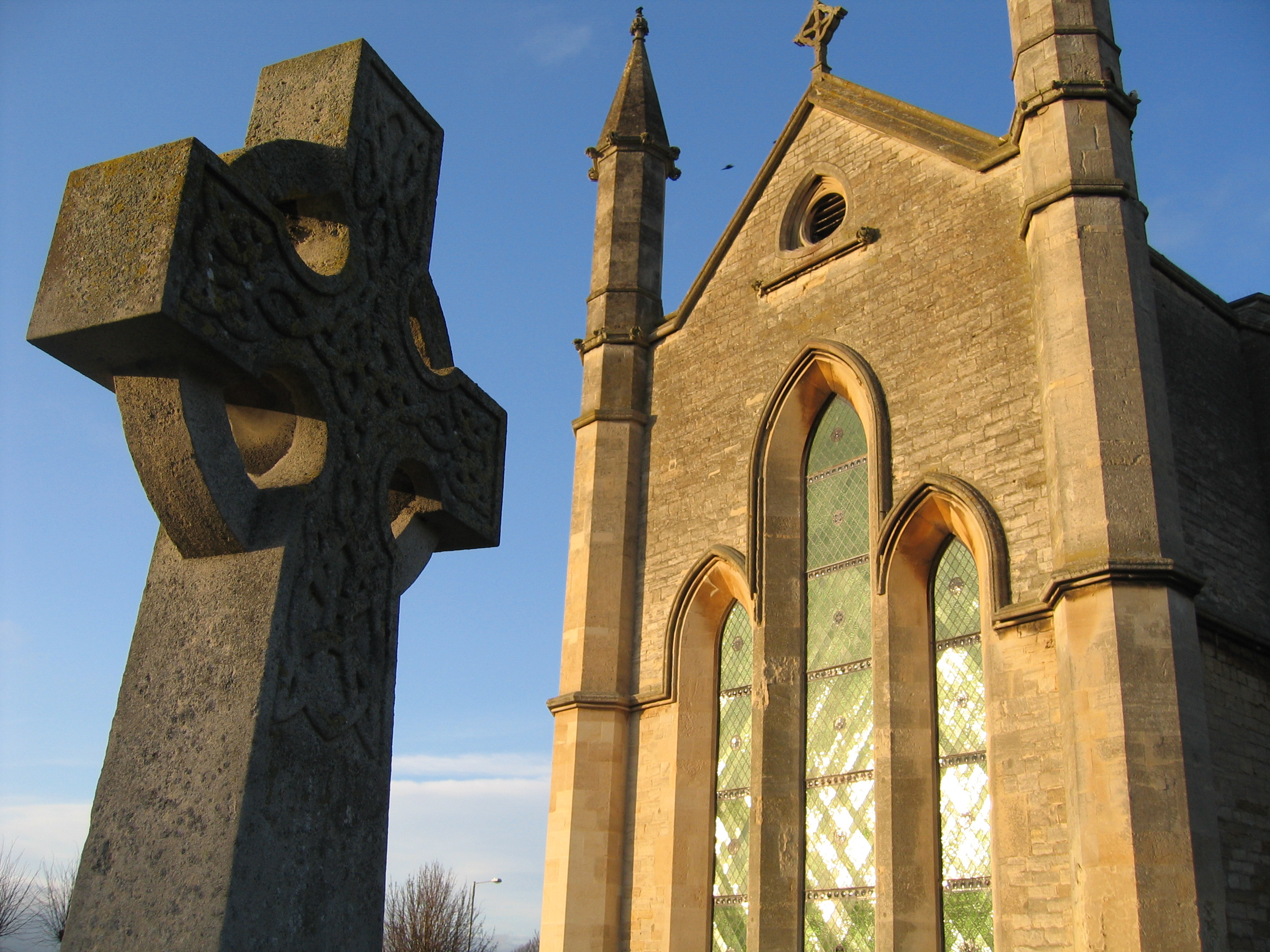 A photo of Trinity Church in Trowbridge, England.